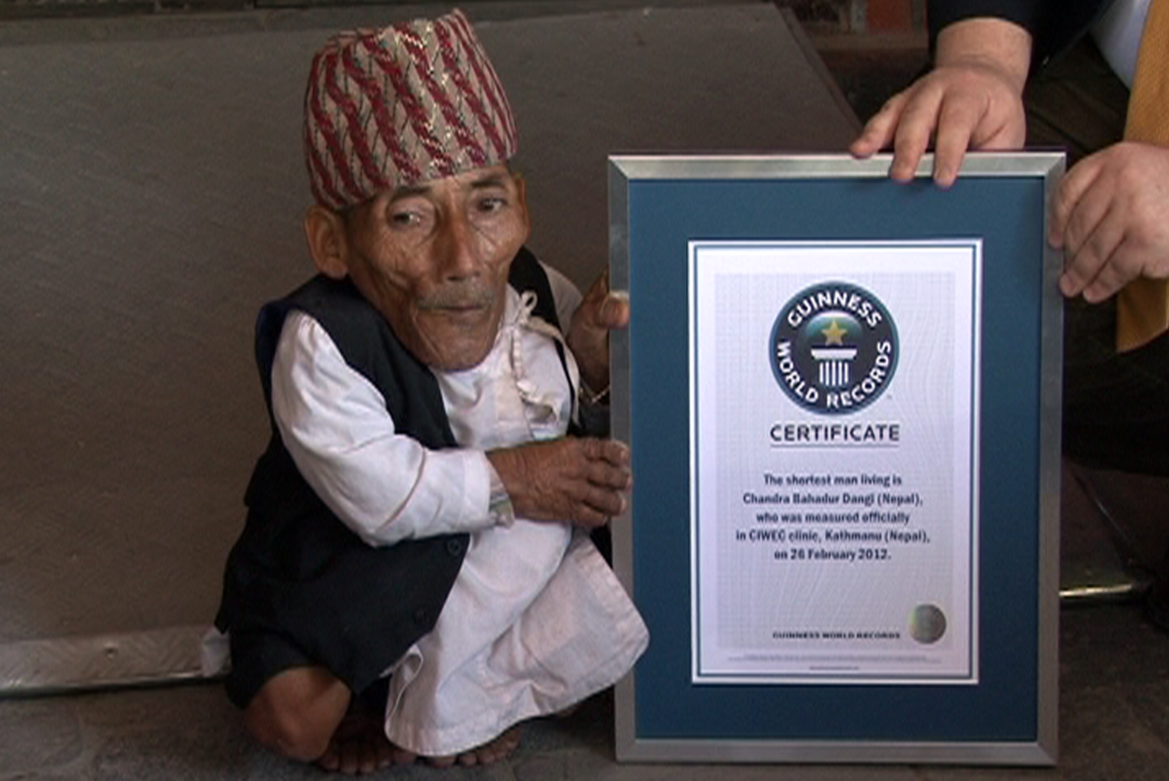 Shortest living Man in the world 2012